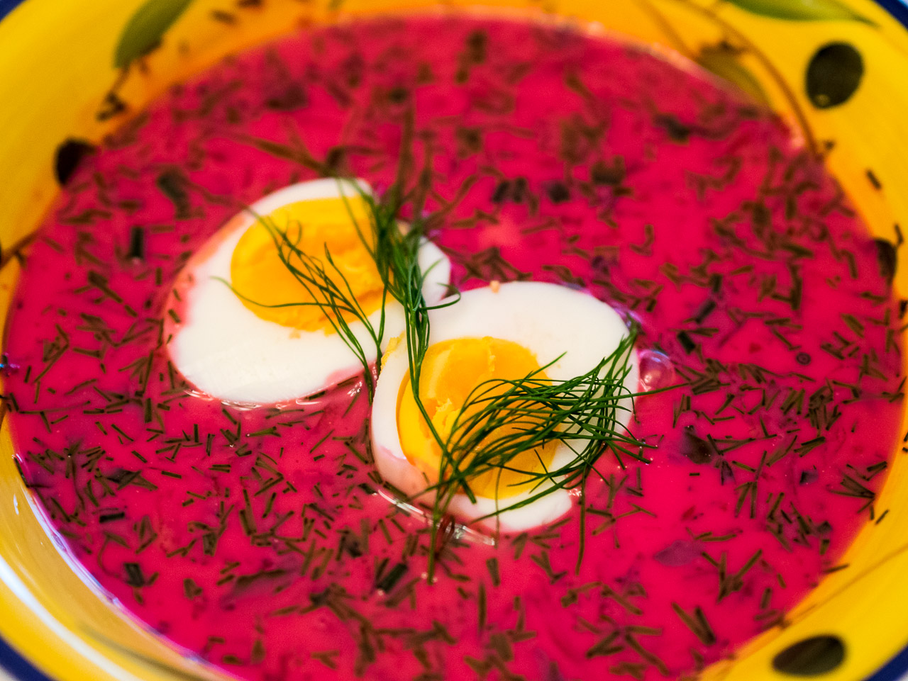 Chłodnik litewski